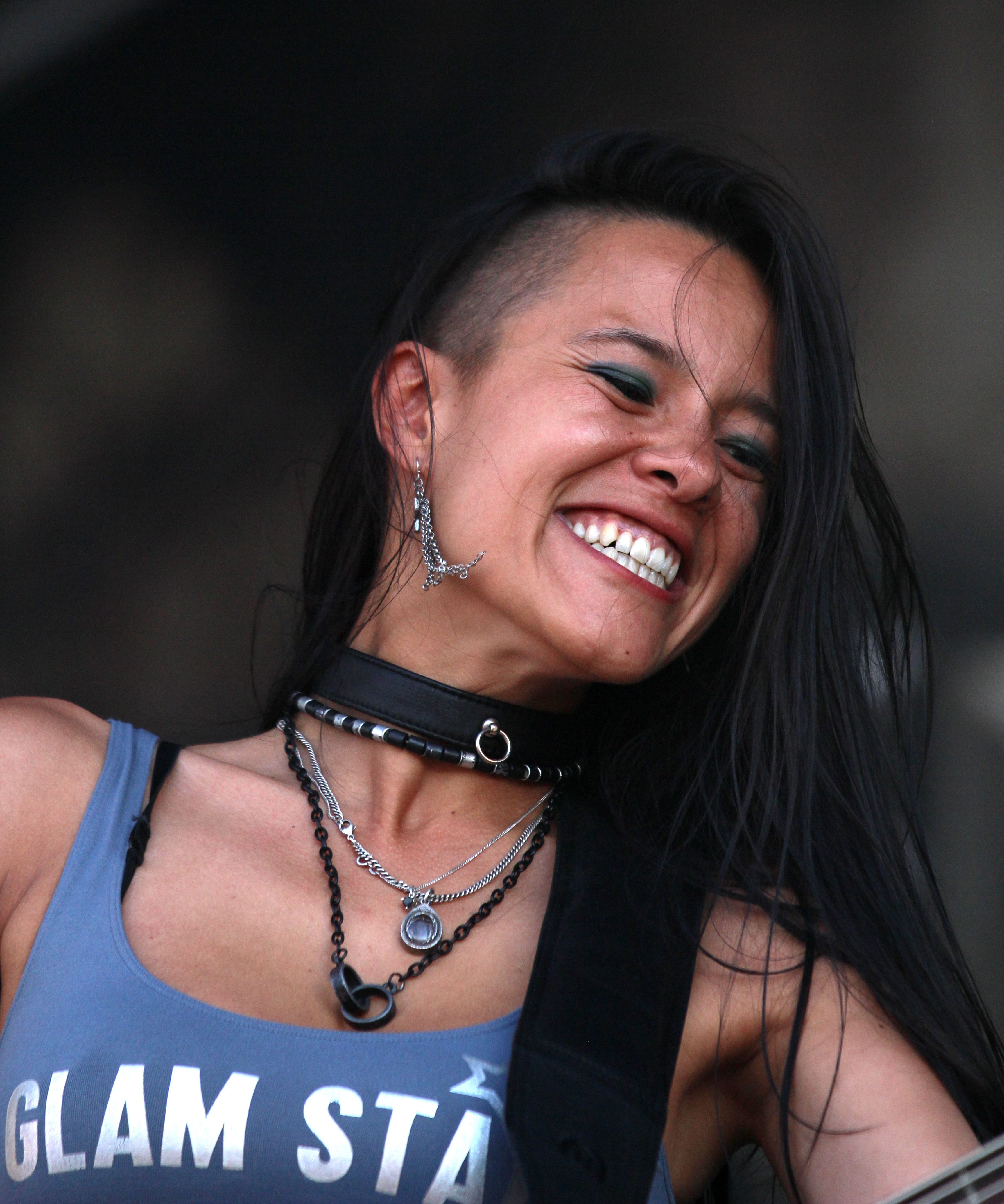 The German pagan metal band Equilibrium at the Rockharz Open Air 2014 in Ballenstedt/Germany